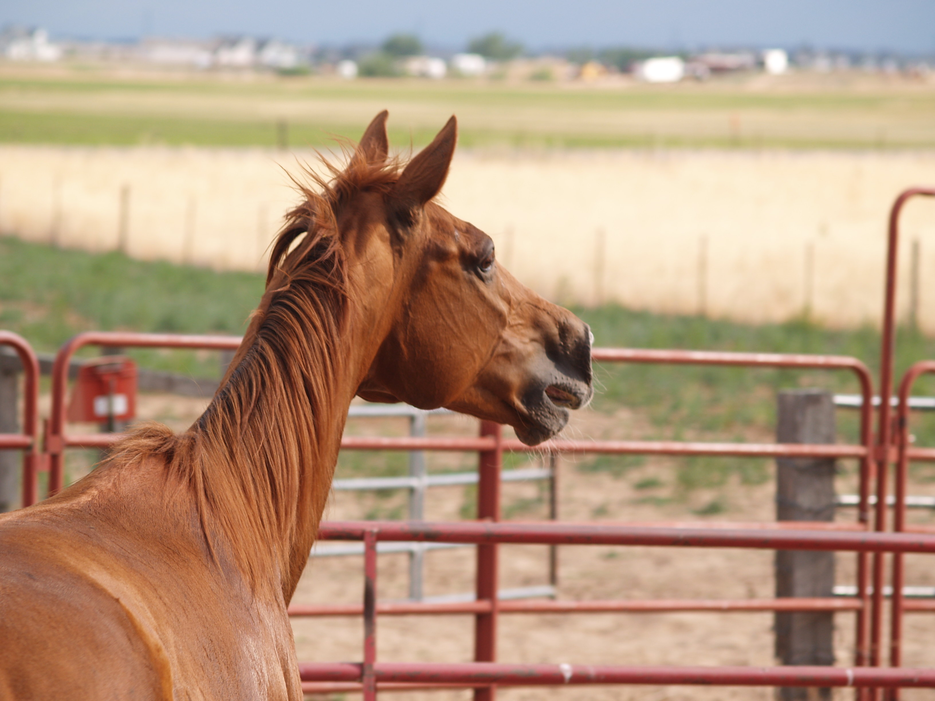 A thoroughbred mare calling to her buddy, Rocket, 20 feet away.